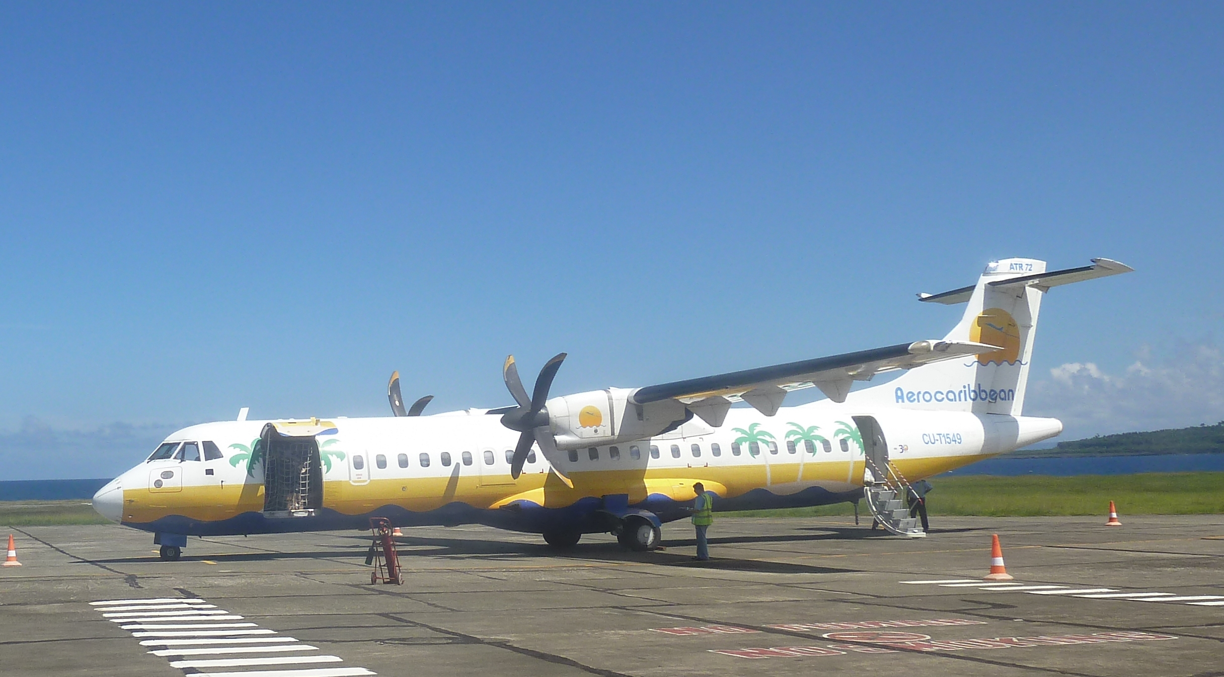 Aero Caribbean ATR-72-212 (CU-T1549) at Gustavo Rizo Airport, Baracoa, Cuba